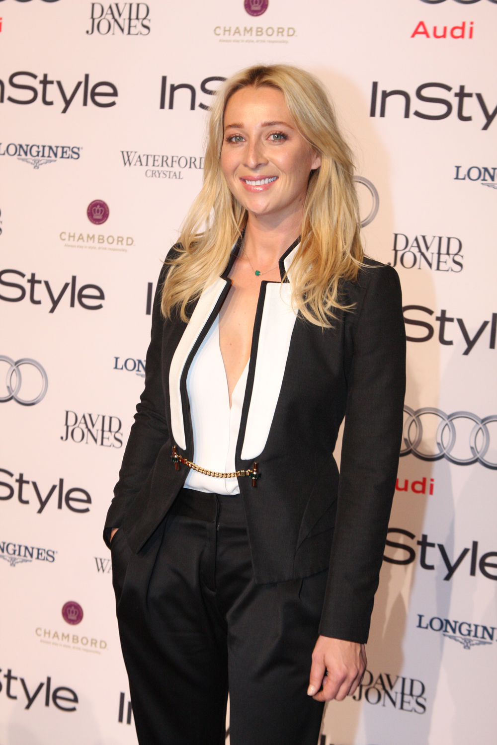 Asher Keddie on the red carpet of the 2012 InStyle Women Of Style Awards.